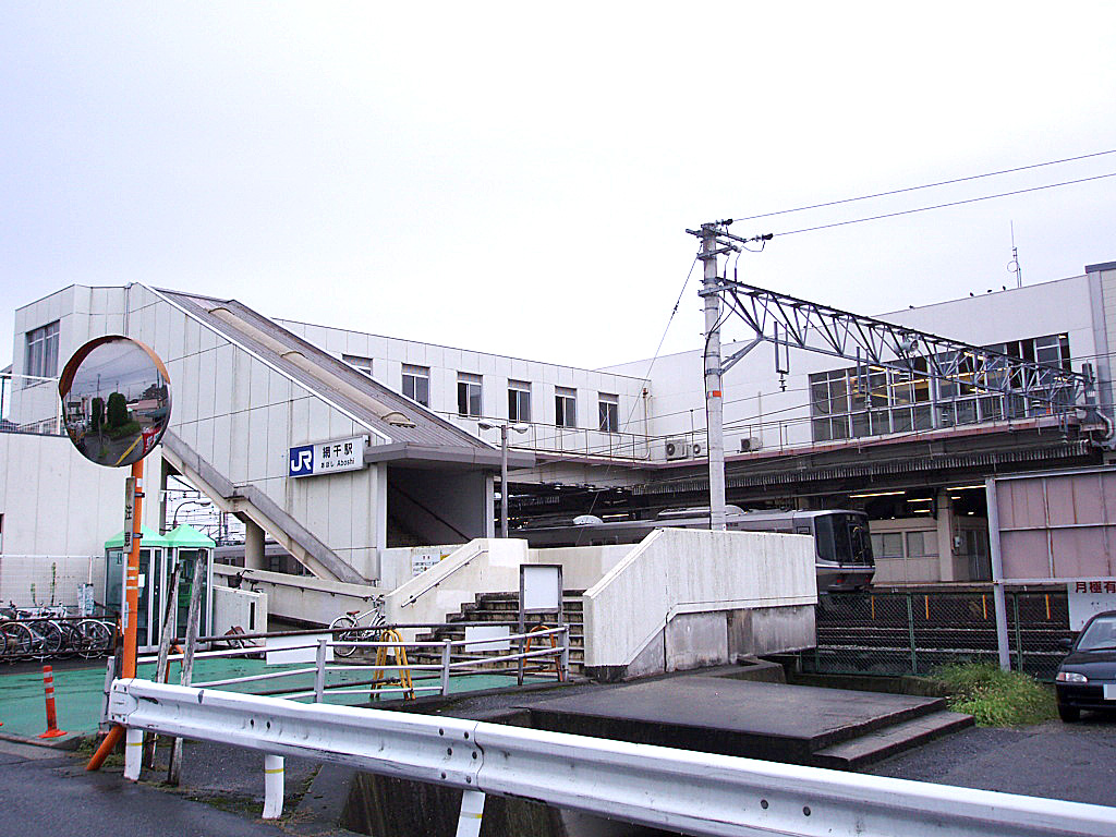 West Japan Railway Sanyo Main Line Aboshi Station Building South Gate西日本旅客鉄道 山陽本線 網干駅 駅舎 南出口